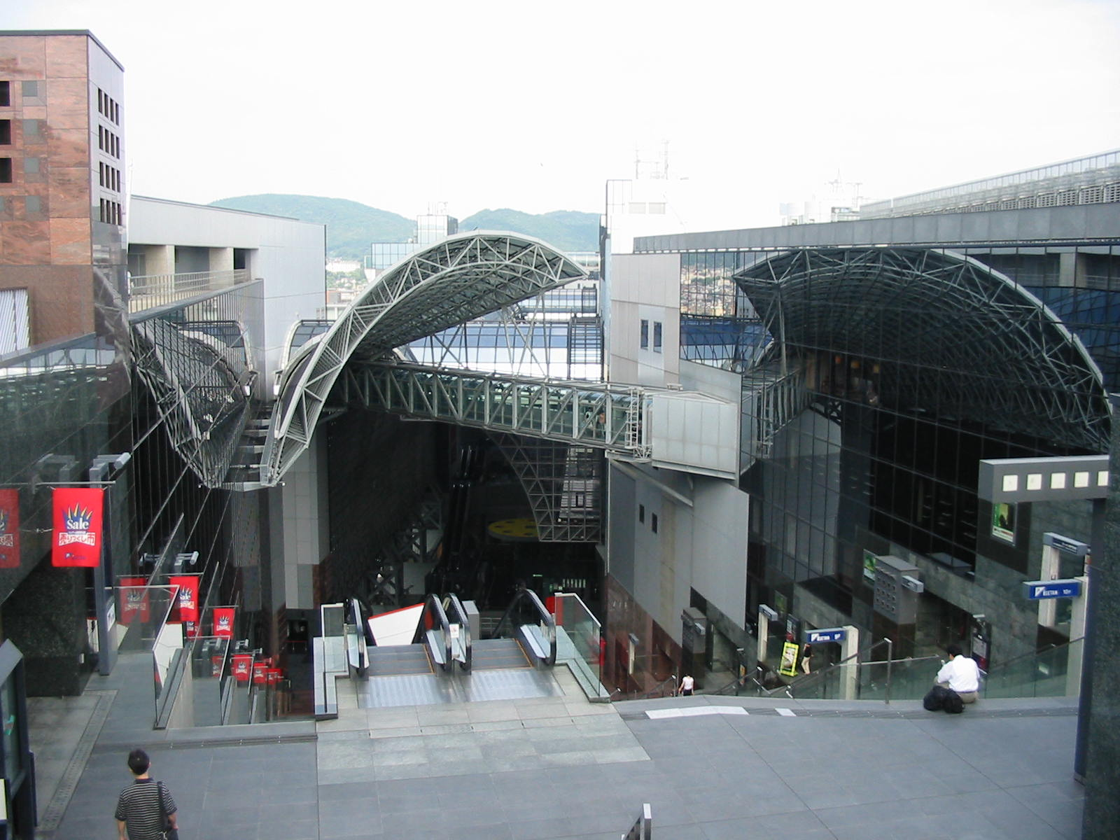 Kyoto station, picture by User:Ellywa